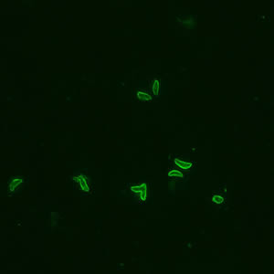 Formalin-fixed T. gondii tachyzoites, stained by immunofluorescence.